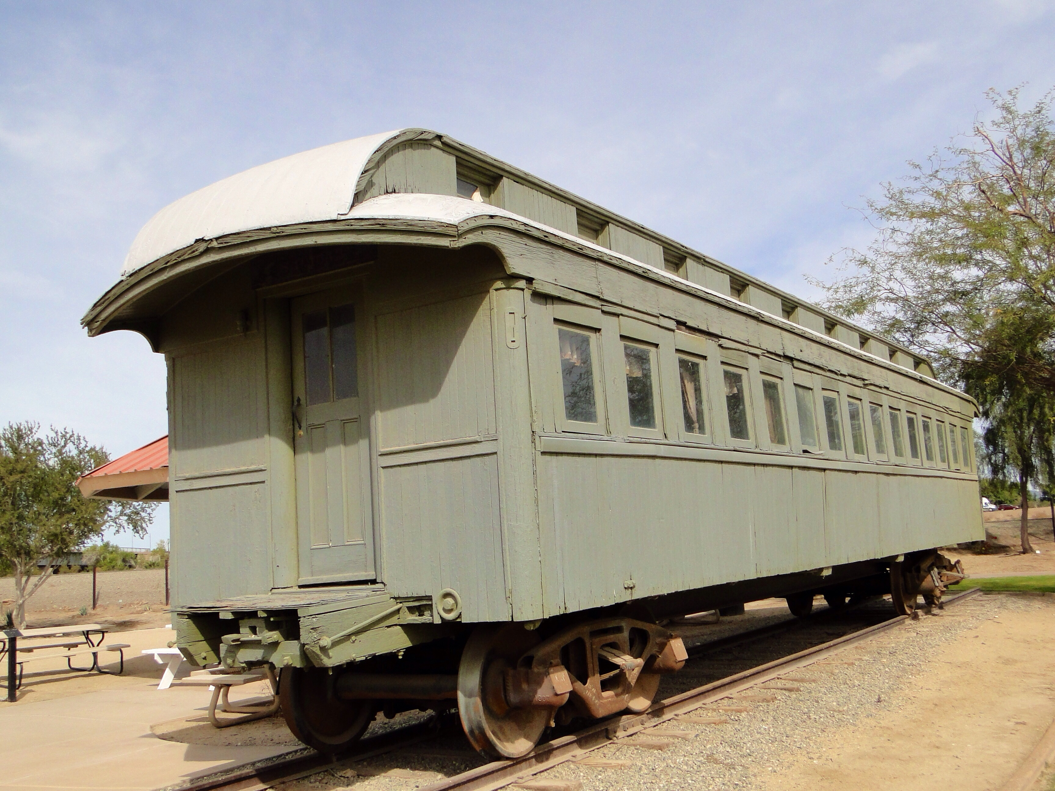 Southern Pacific Railroad Passenger Coach Car S.P. X7, located at the Yuma Quartermaster Depot Historic Site, 201 N. 4th Avenue, Yuma, Arizona